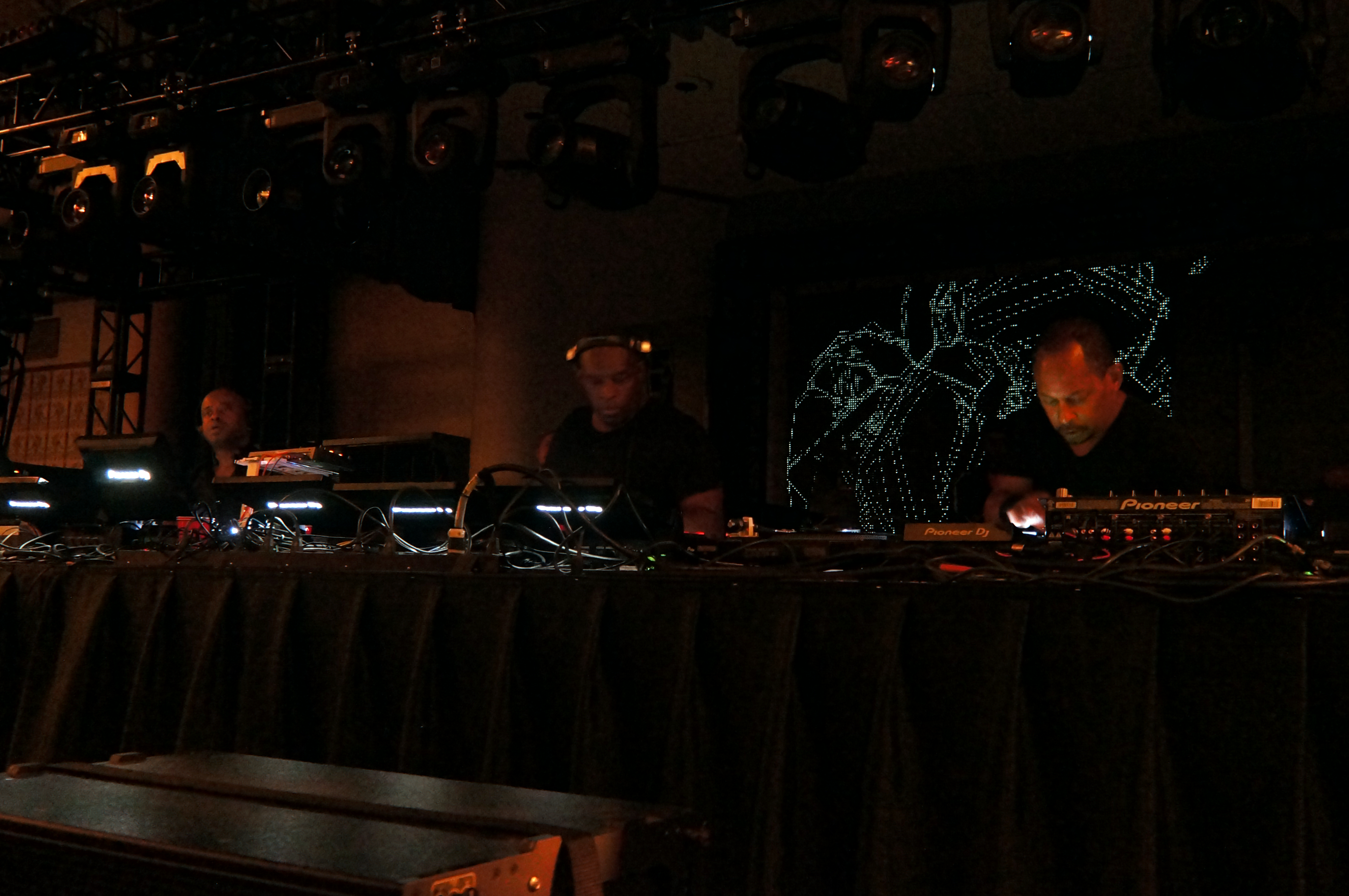 The Belleville Three performing at the Detroit Masonic Temple on May 27th 2017